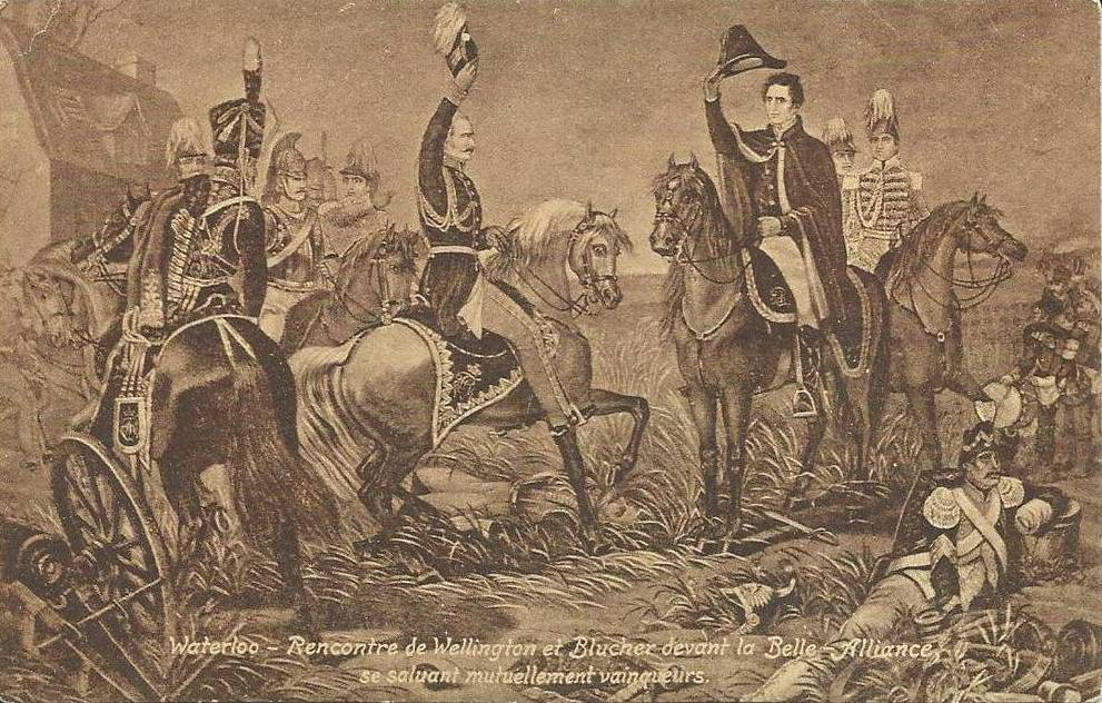 Encounter of Wellington & Blücher near Belle Alliance farm, after the Waterloo victory. Published initially by : Editions Trenkler Co Bruxelles.